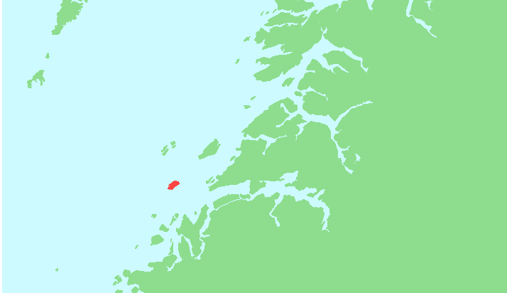 Locator map of Bliksvær, Nordland, Norway